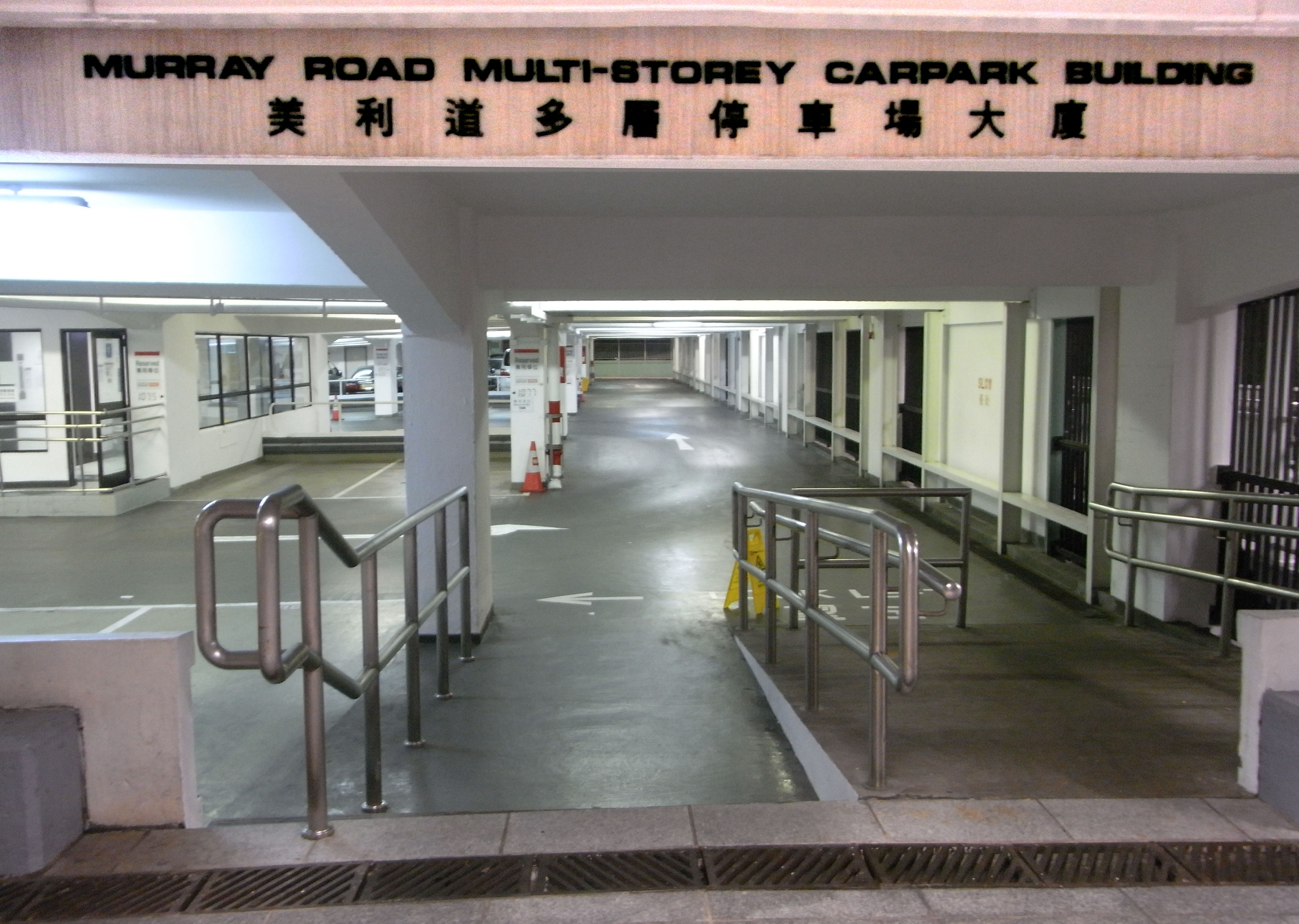 2010年2月zh:香港中環